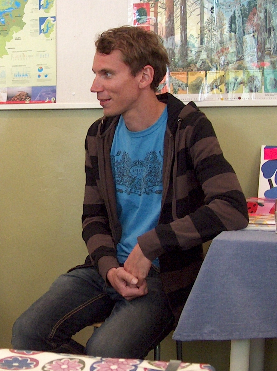 Juha Itkonen, Finnish writer, talking about his books at The Finnish BookCrossing Convention in Suomenlinna - Helsinki 2008.